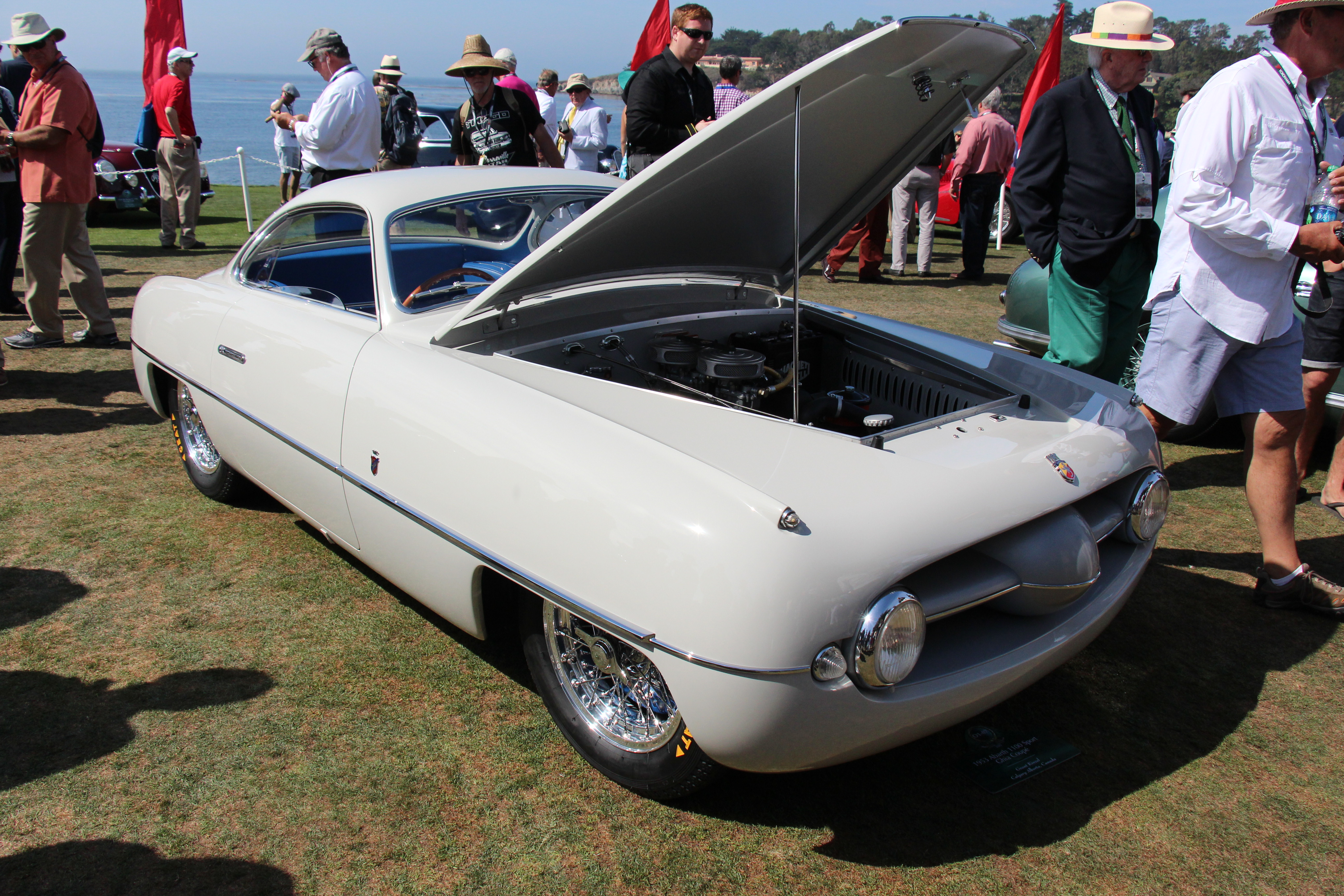 Abarth was a racing car and road car maker founded by Carlo Abarth in 1949, eventually sold to Fiat in 1971. The Ghia design studio designed this car for Carlo Abarth in 1953, this car is so rare it has not been seen in public since a New York car show in 1954. In 1953, it looked light years ahead of its time with its futuristic, low-slung lines. It was built on the last of four Abarth 205 competition chassis and used mechanical components from the new at the time, Fiat 1100 Engine; 1100cc 4 cyl Photographed at the 2015 Pebble Beach Concours d'Elegance